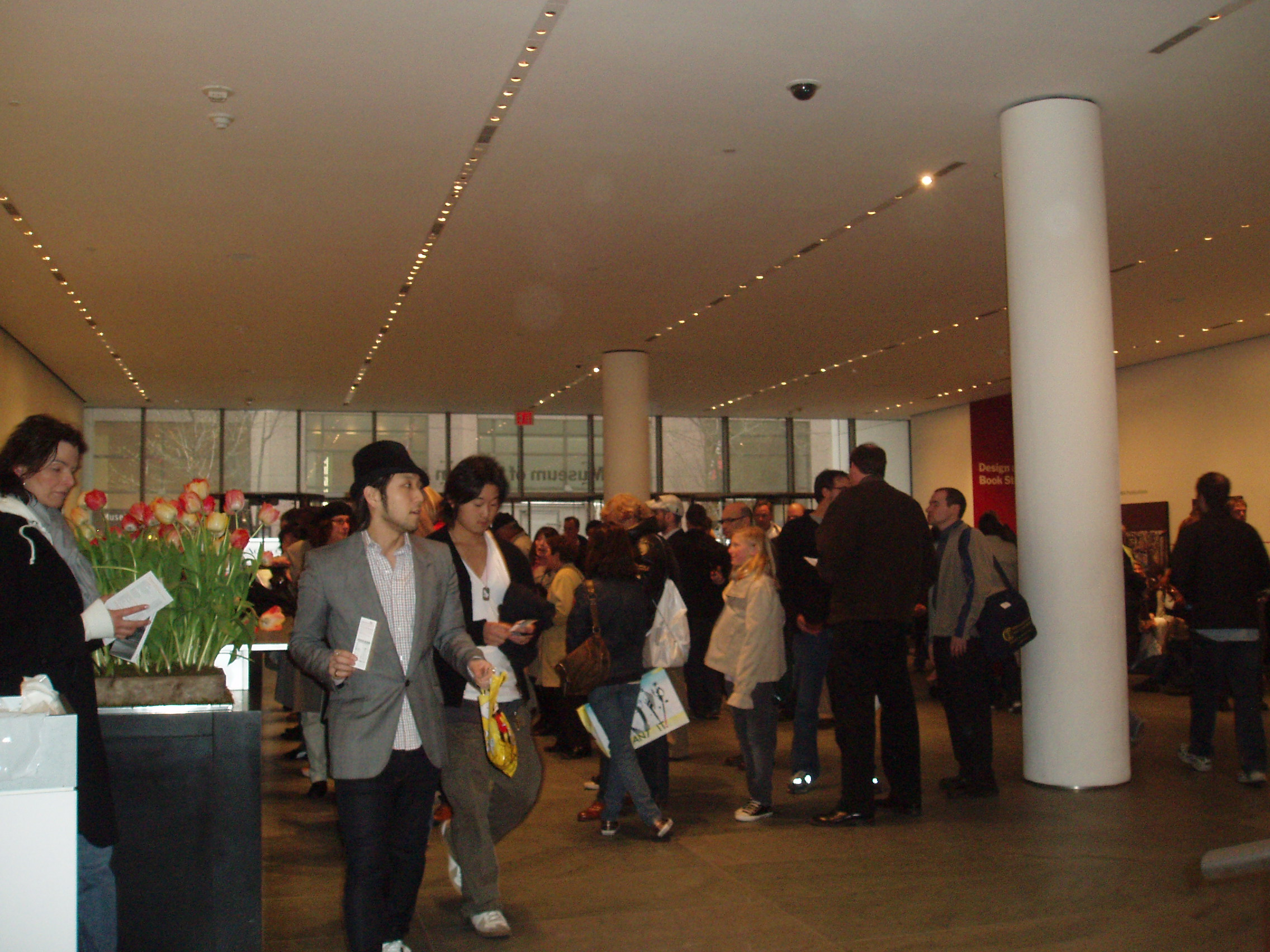 The Entrance of New York's Museum of Modern Art